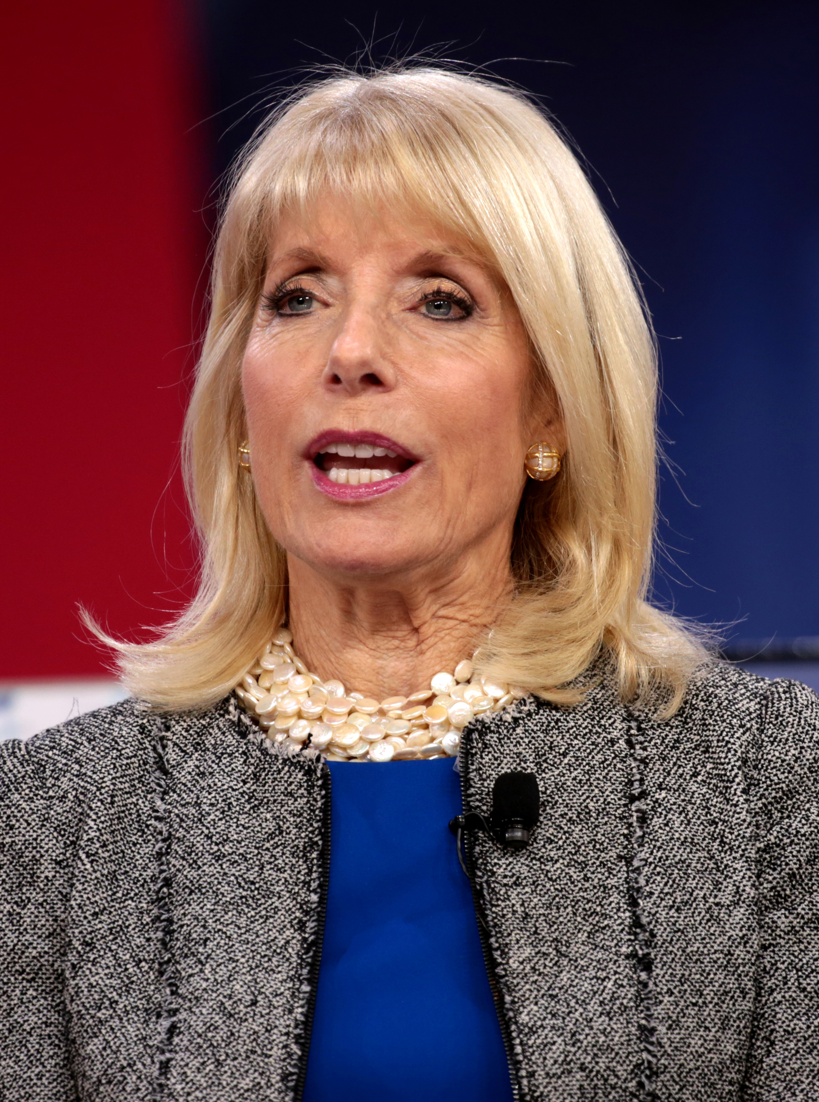 Liz Peek speaking at the 2018 CPAC in National Harbor, Maryland.